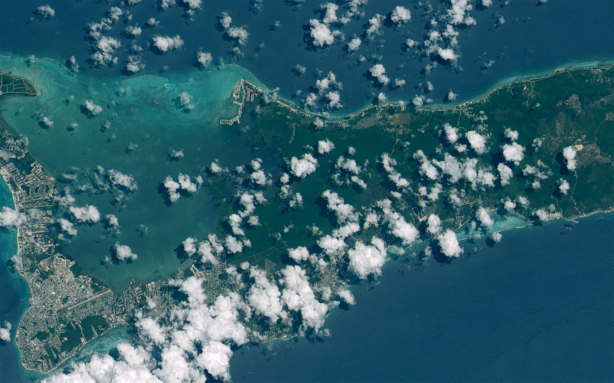 Grand Cayman, Cayman Islands, as viewed from Hodoyoshi-1 satellite.